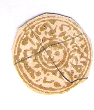 Ancien timbre rond afghan